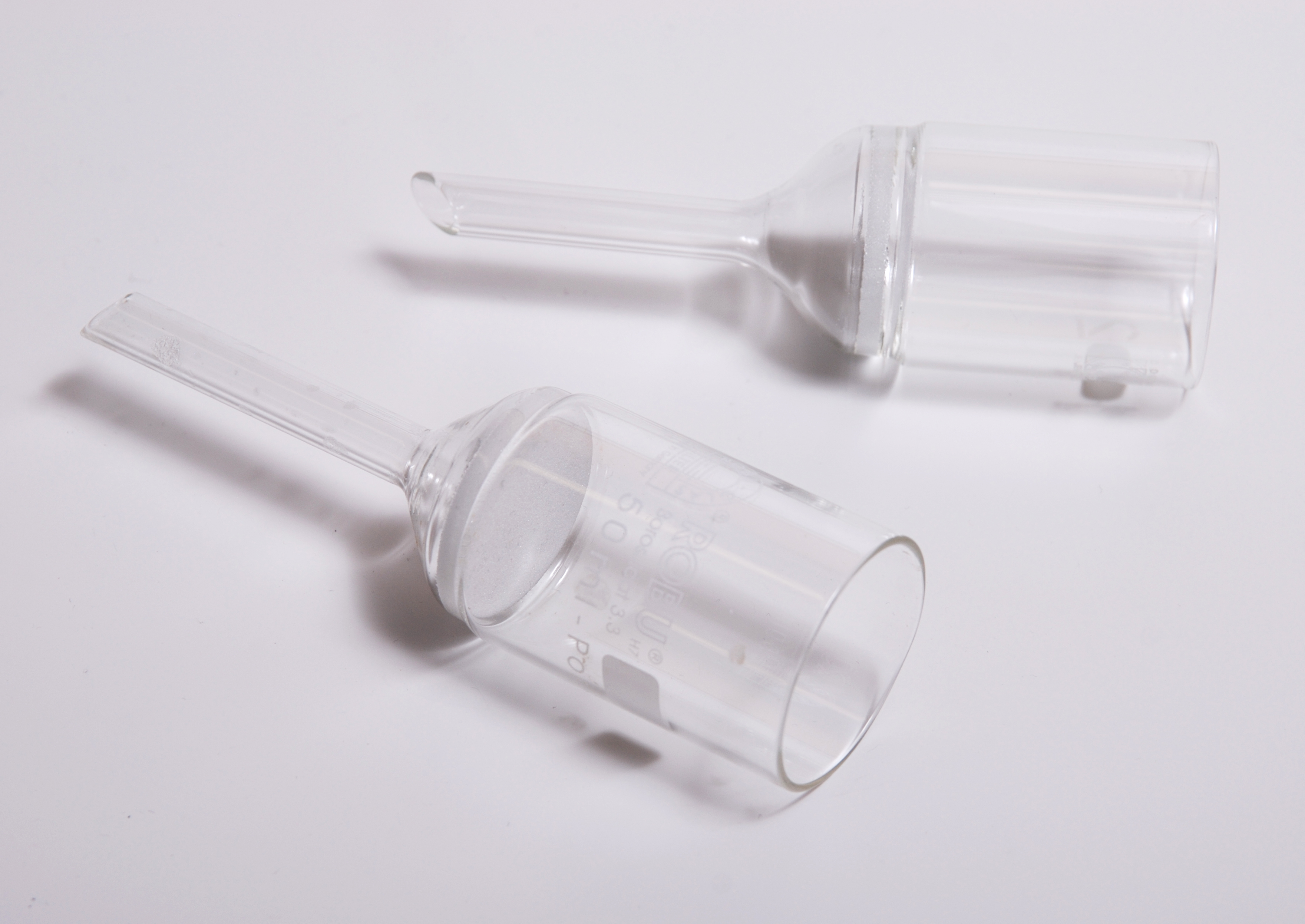 Small sintered glass funnels